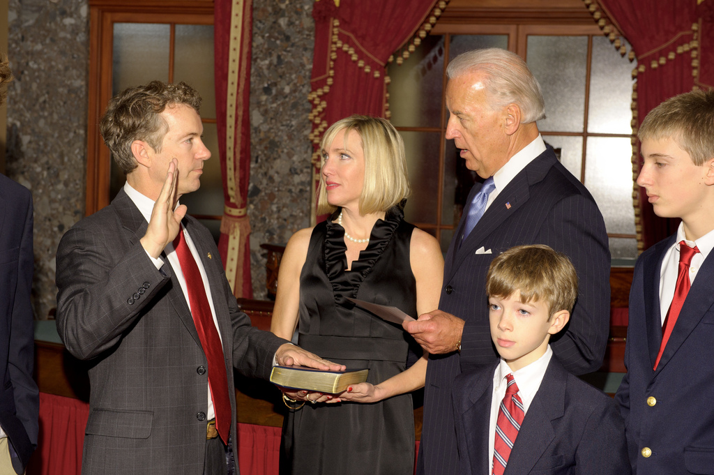 Senator Rand Paul being ceremonially sworn-in by Vice President Joe Biden, along with his family.